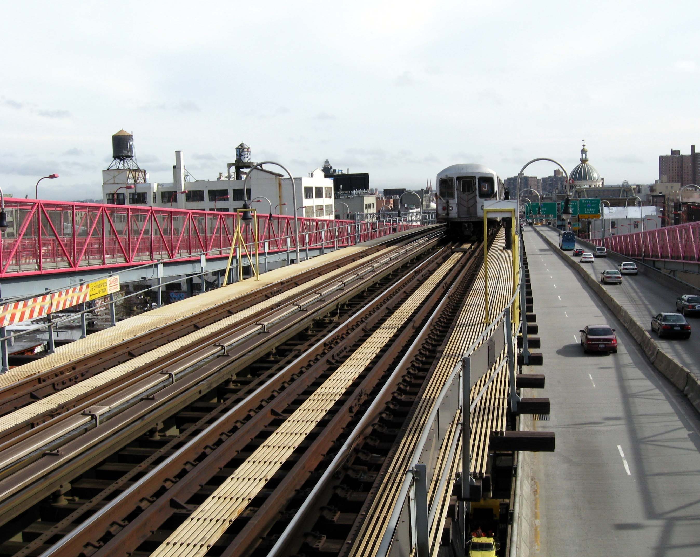 Jamaica bound J train of J/Z (New York City Subway service) leaves Williamsburg Bridge on way to Marcy Avenue station. Looking east from bridge pedestrian walkway, on a sunny winter midday.